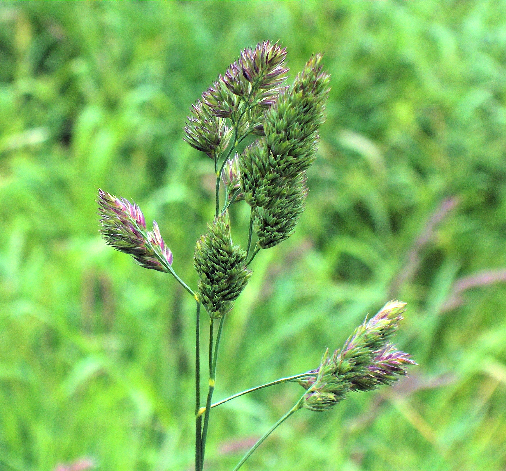 Dactylis glomerata seedhead, Dornoch, Scotland, 57°52'45"N, 4°1'22"W